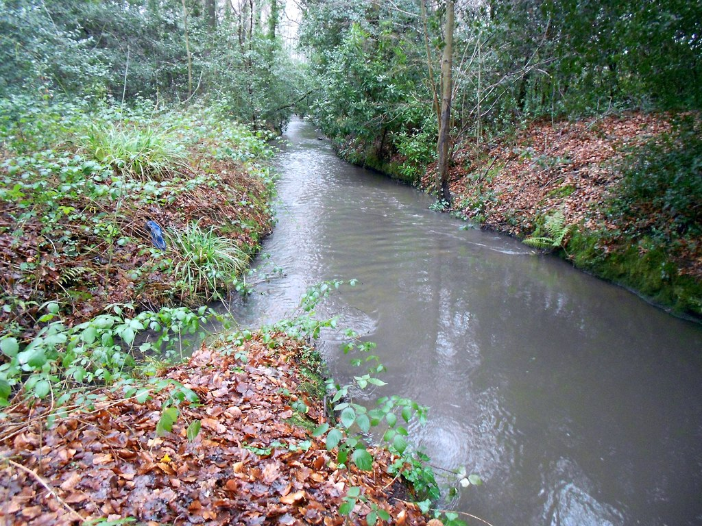 Fleet Brook downstream of Fleet Pond